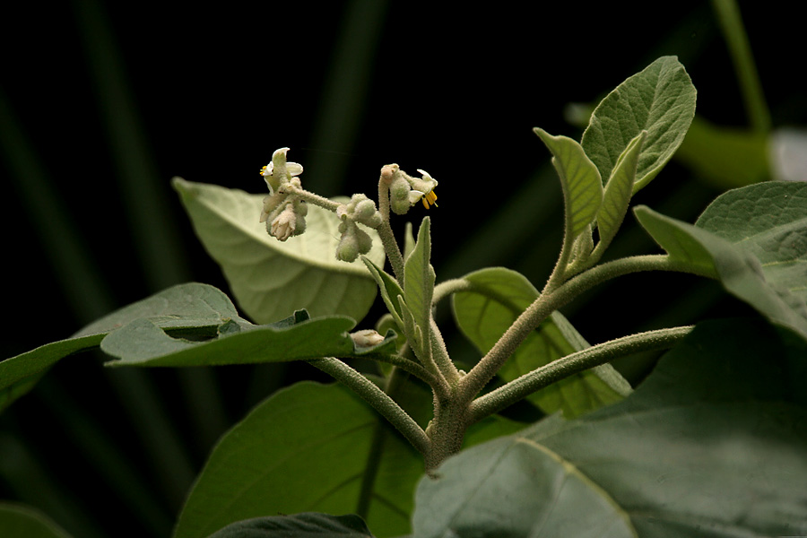 Solanum erianthum- Big Eggplant, China Flowerleaf, Mullein Nightshade, Potato-Tree, Potatotree, Tobacco Nightshade, Tobacco-Tree - in Hyderabad, India.